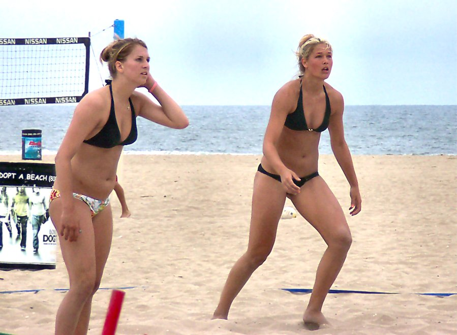 Beach volleyball players; Huntington Beach, California.